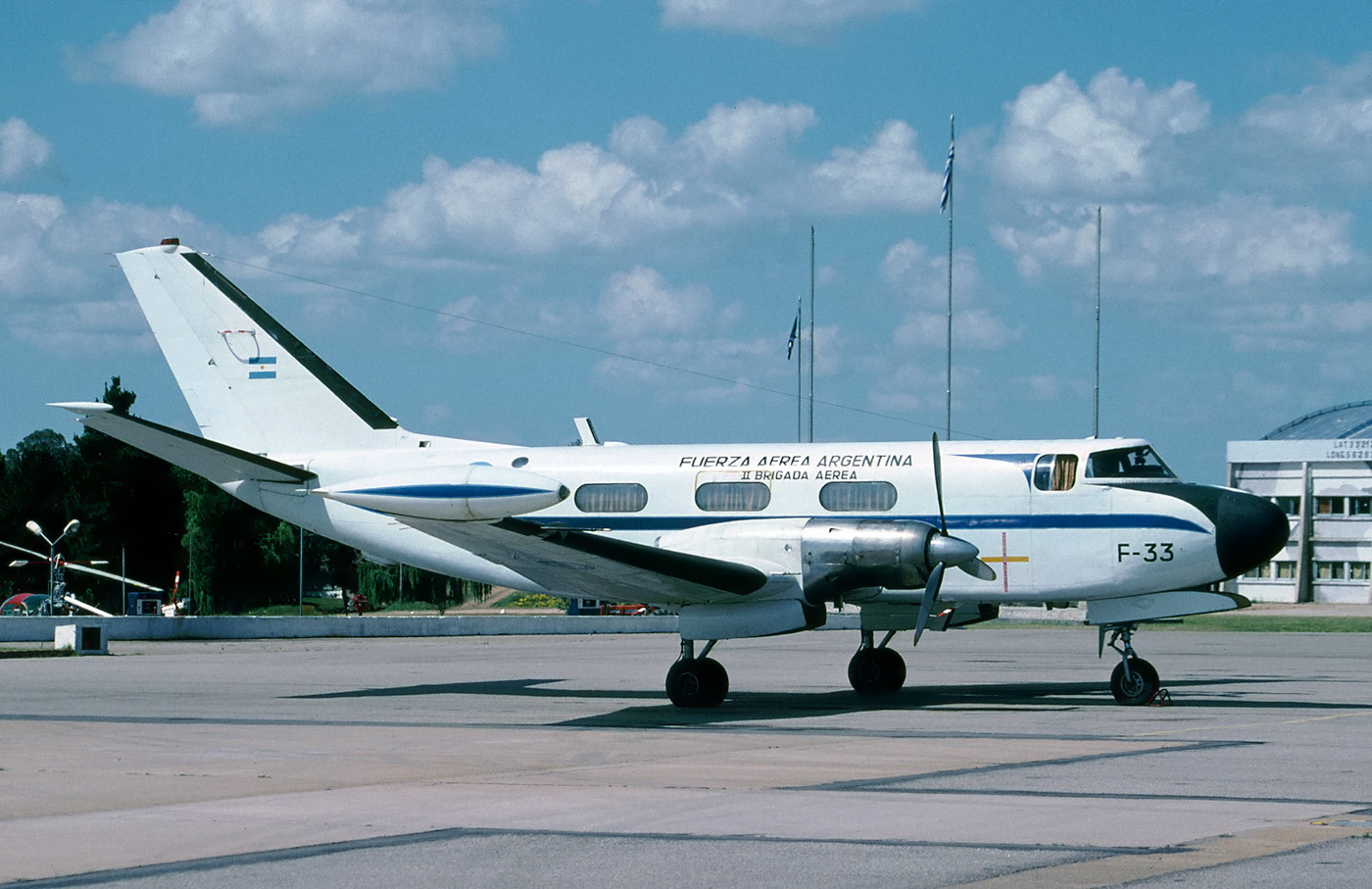 F-33 (cn 19) What a great surprise to see this visiting aircraft on an airbase in Uruguay!